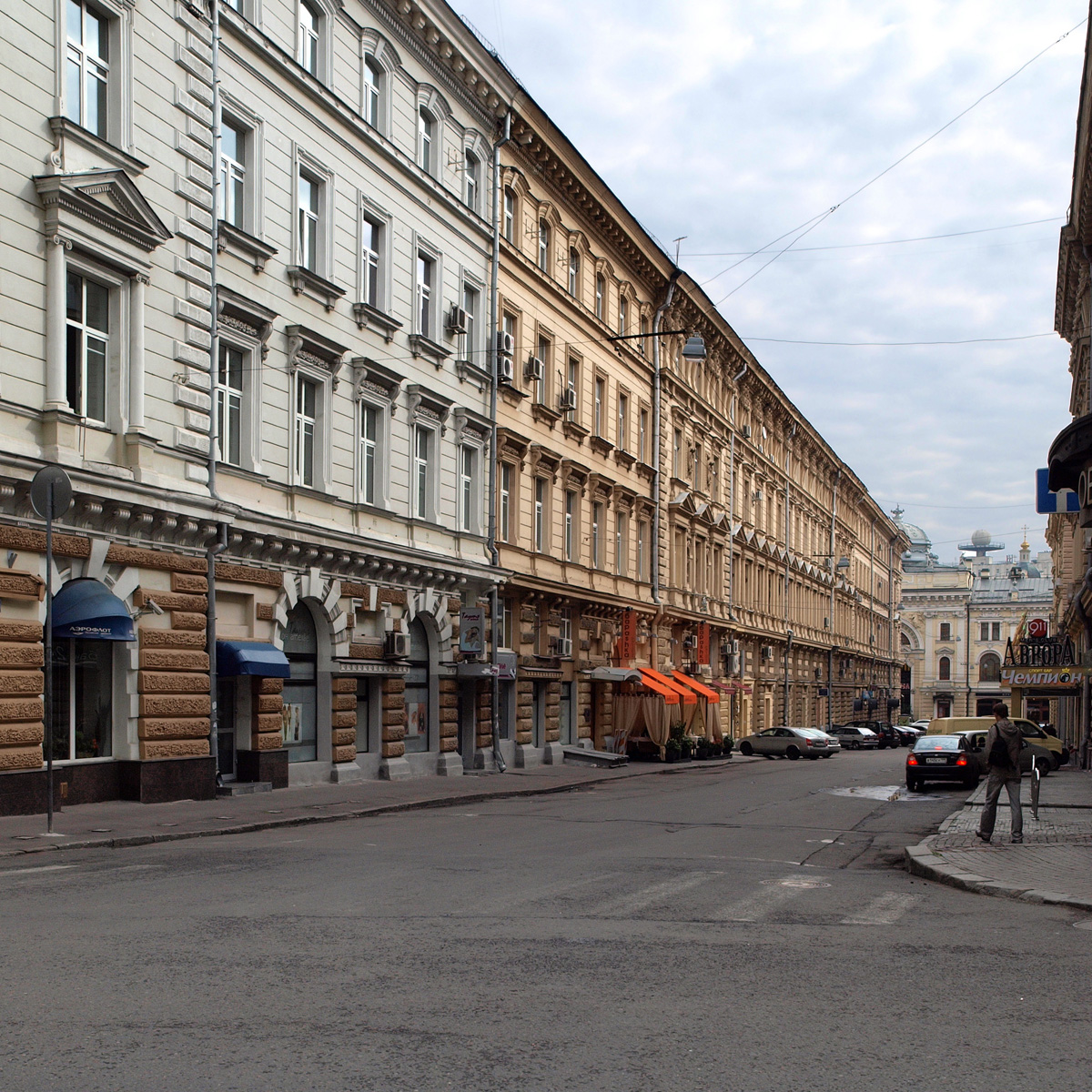 North side of Petrovskie Linii Street, Moscow (view from Petrovka Street)